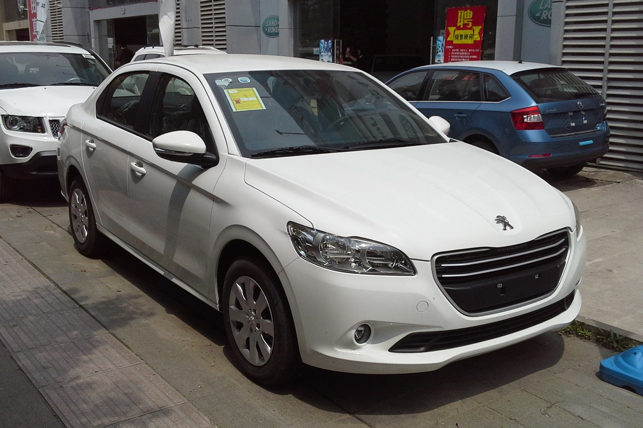 Peugeot 301 photographed in Wuhan, Hubei province, China.